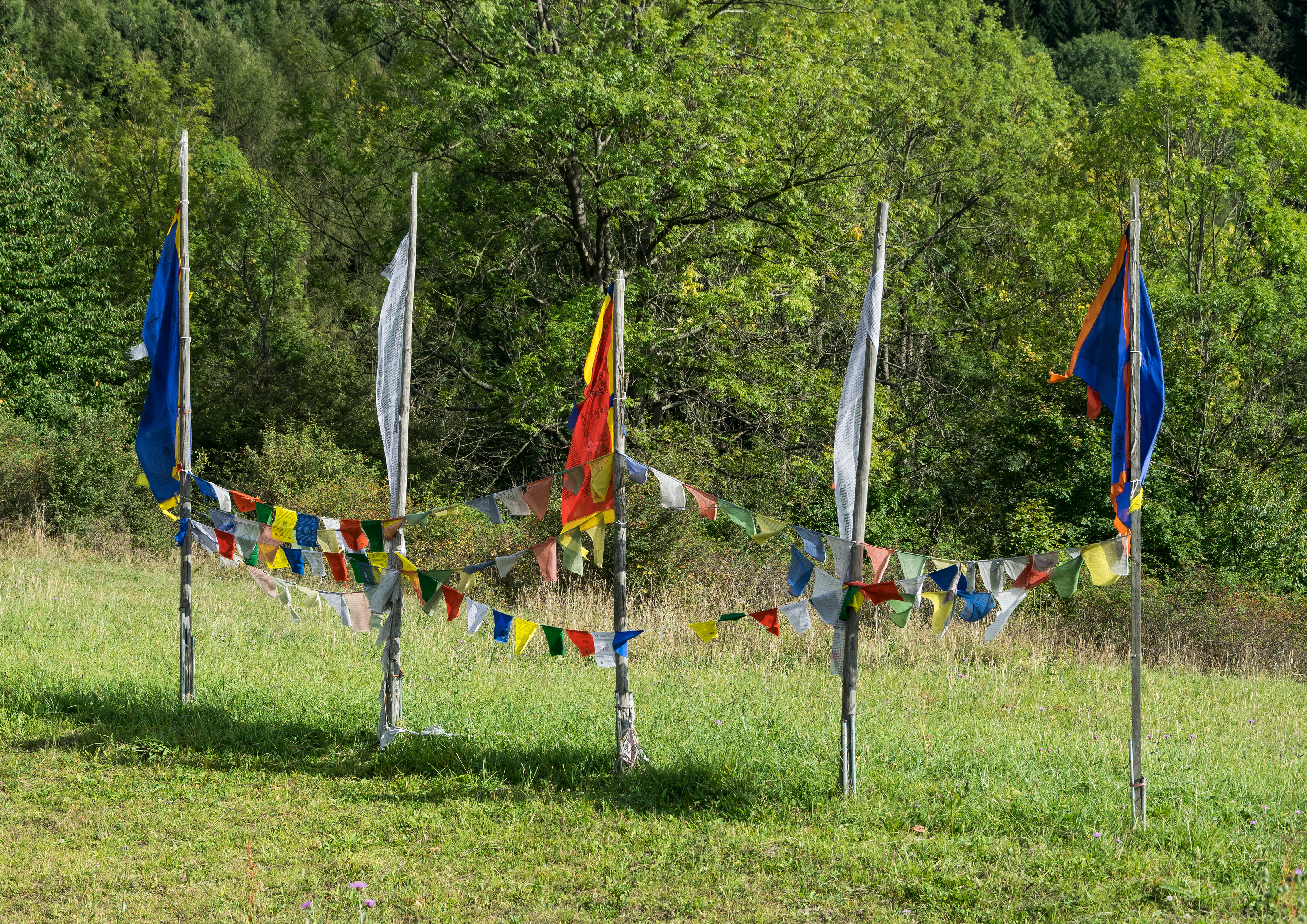 Gompa Drophan Ling in Darnków, prayer flags